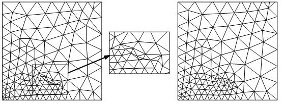 2D mesh correction (Left - distorted grid, Right – pseudo-regular grid).